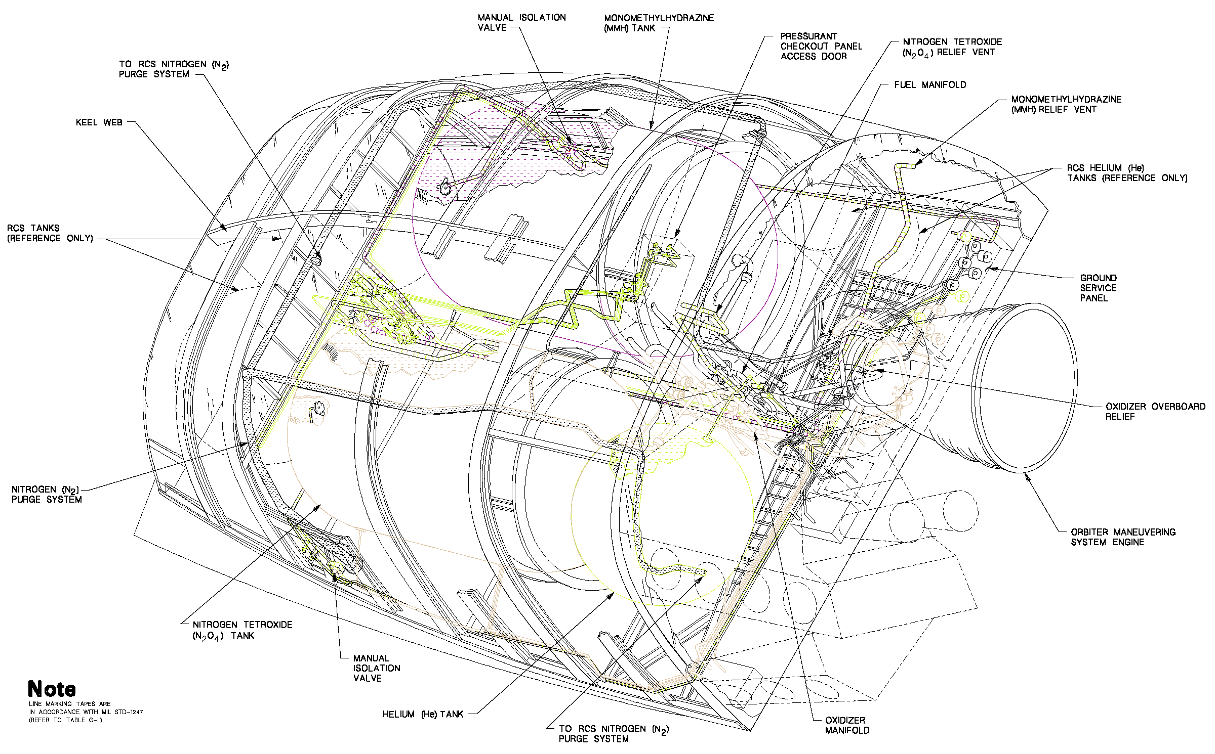 A diagram showing the components of a Space Shuttle Orbital Maneuvering System (OMS) pod.